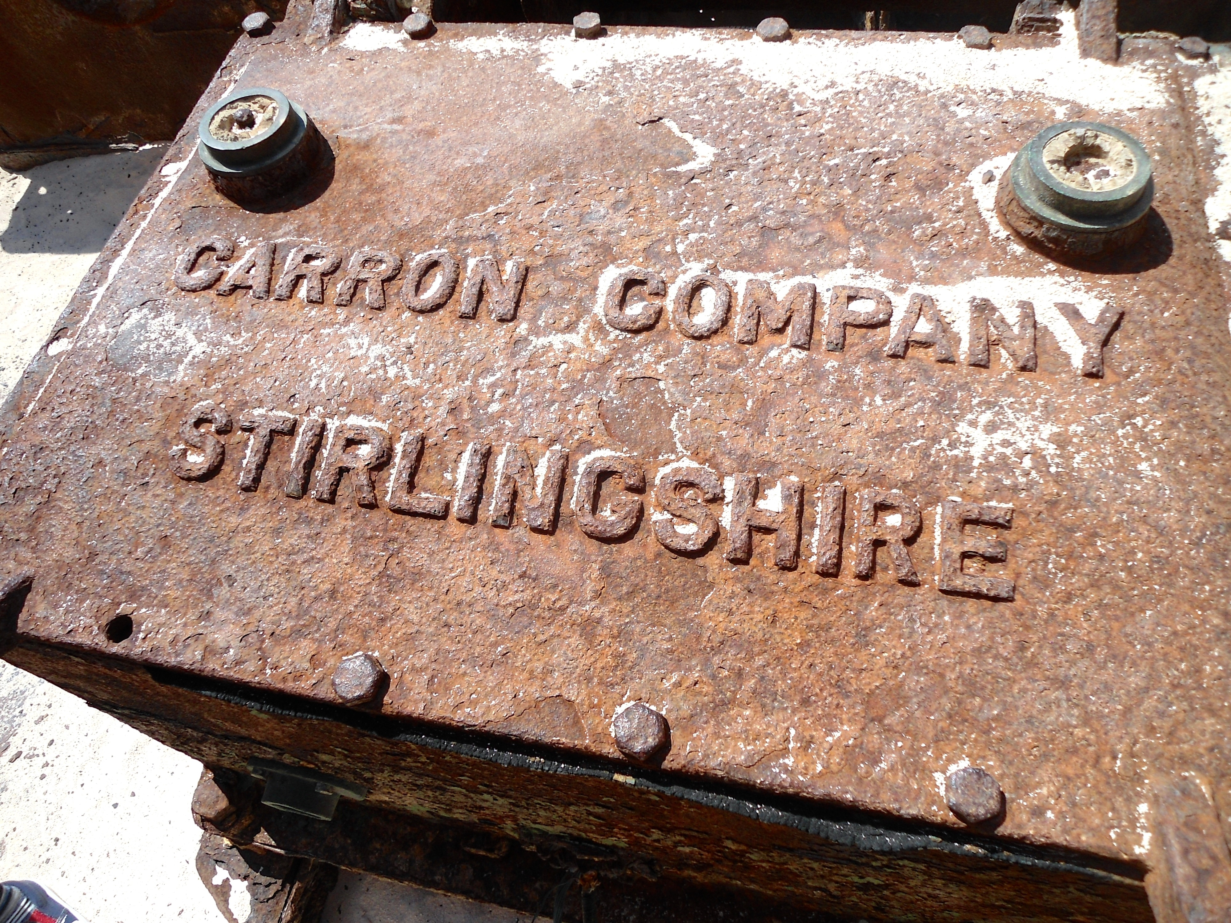 A detail from the famous MV Panagiotis shipwreck (aka Navagio) situated on a beach of the island of Zakynthos, Greece. Detailing the Carron Company from Stirlingshire.